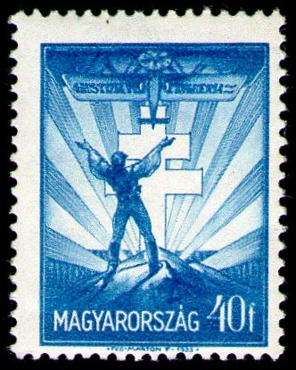 Airmail stamp of Hungary, 1933 (Michel 505). The cross in the background is a patriarchal cross, a national symbol not only in Hungary, but also in Slovakia. Moreover, the text on the aircraft wings reads 'Justice for Hungary' interpreted in Slovakia as a wish to reclaim areas that Hungary had ceded to Slovakia after the (First) World War. Hence, post with this stamp was returned to the sender in Hungary with a sticker 'Unallowable'. The 20 Fillér stamp with the same image got rejected as well, see File:Hong lp 20.jpg.